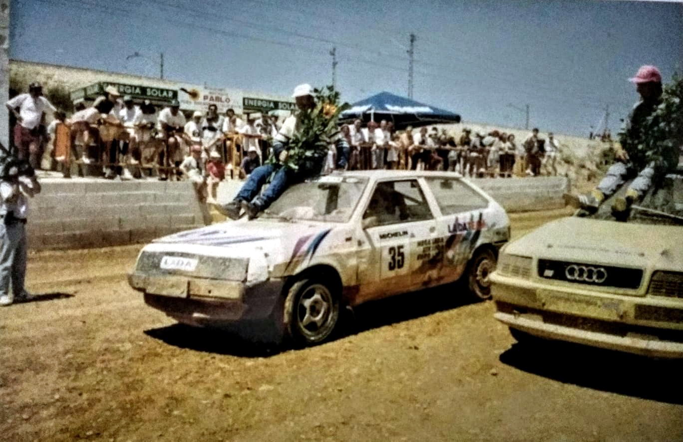 European Autocross Championship 1996, Spain (Vinaròs). Division 2. Boris Kotello (Lada Samara), Manfred Pommer (Audi S2).